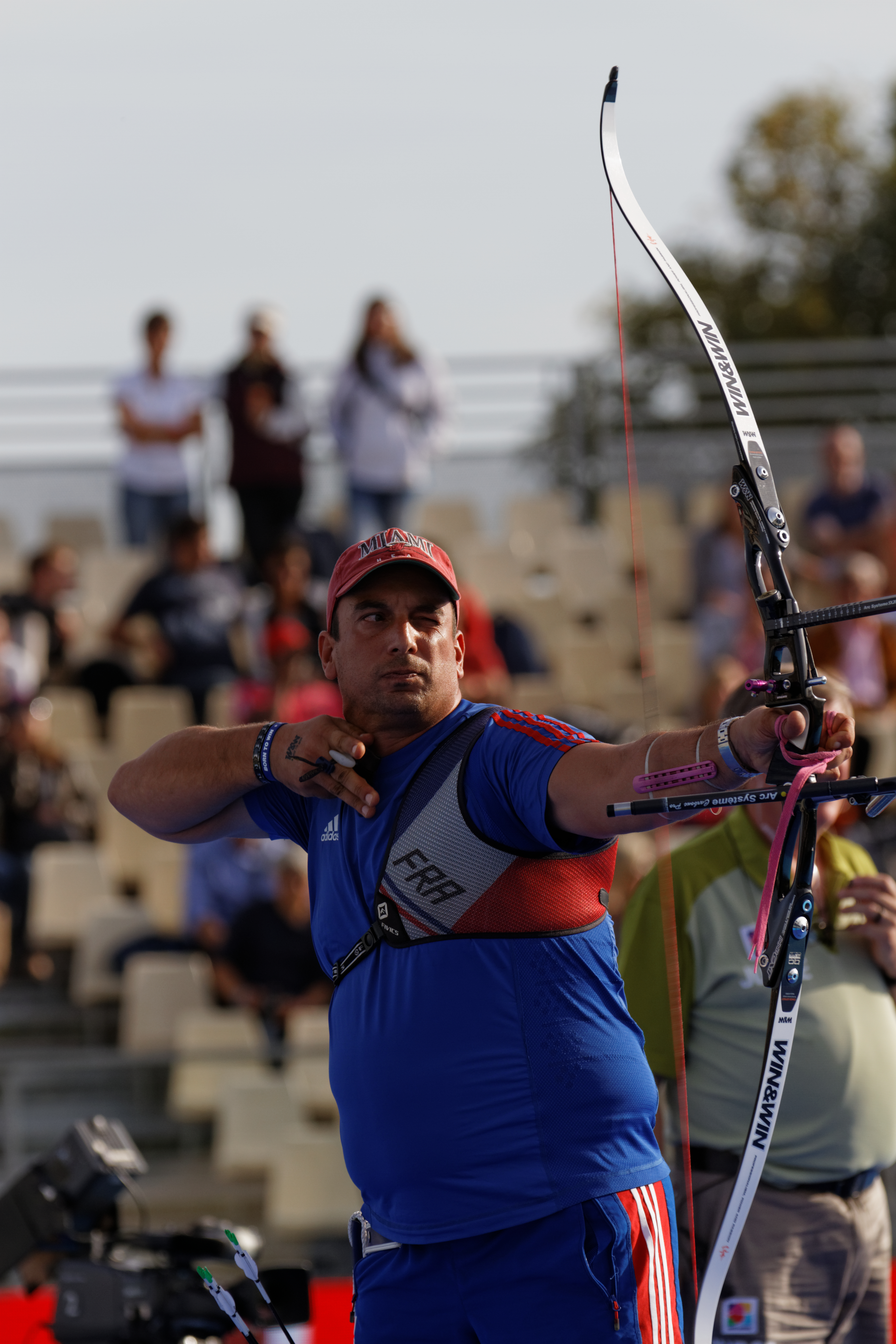 2013 FITA Archery World Cup, Paris, France. Para-archery: Ebrahim Ranjbar Kivaj vs. Armando Cabreira.